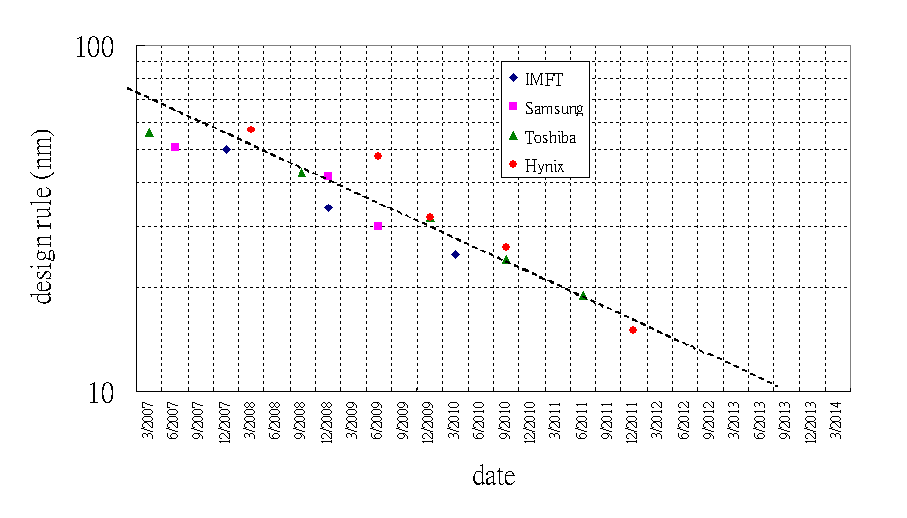 Reference: EETimes article on NAND scaling, 3/22/2010